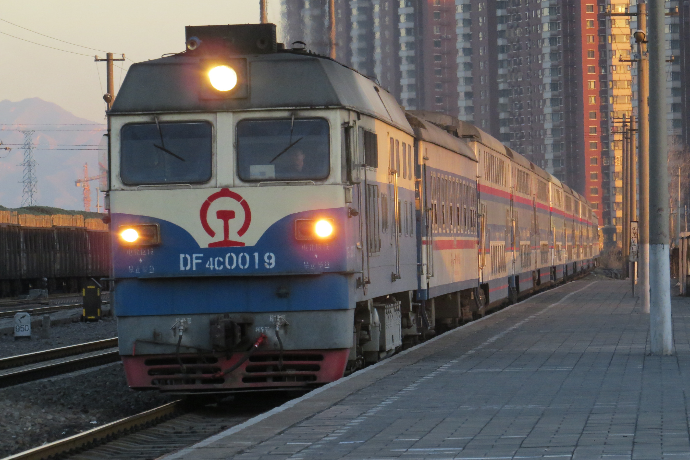 1 YW25K+8 SYZ25Ks+1 RW25K+1 KD25K.